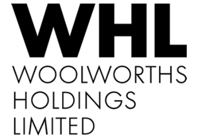 to serve as the primary means of visual identification at the top of the article dedicated to the entity in question